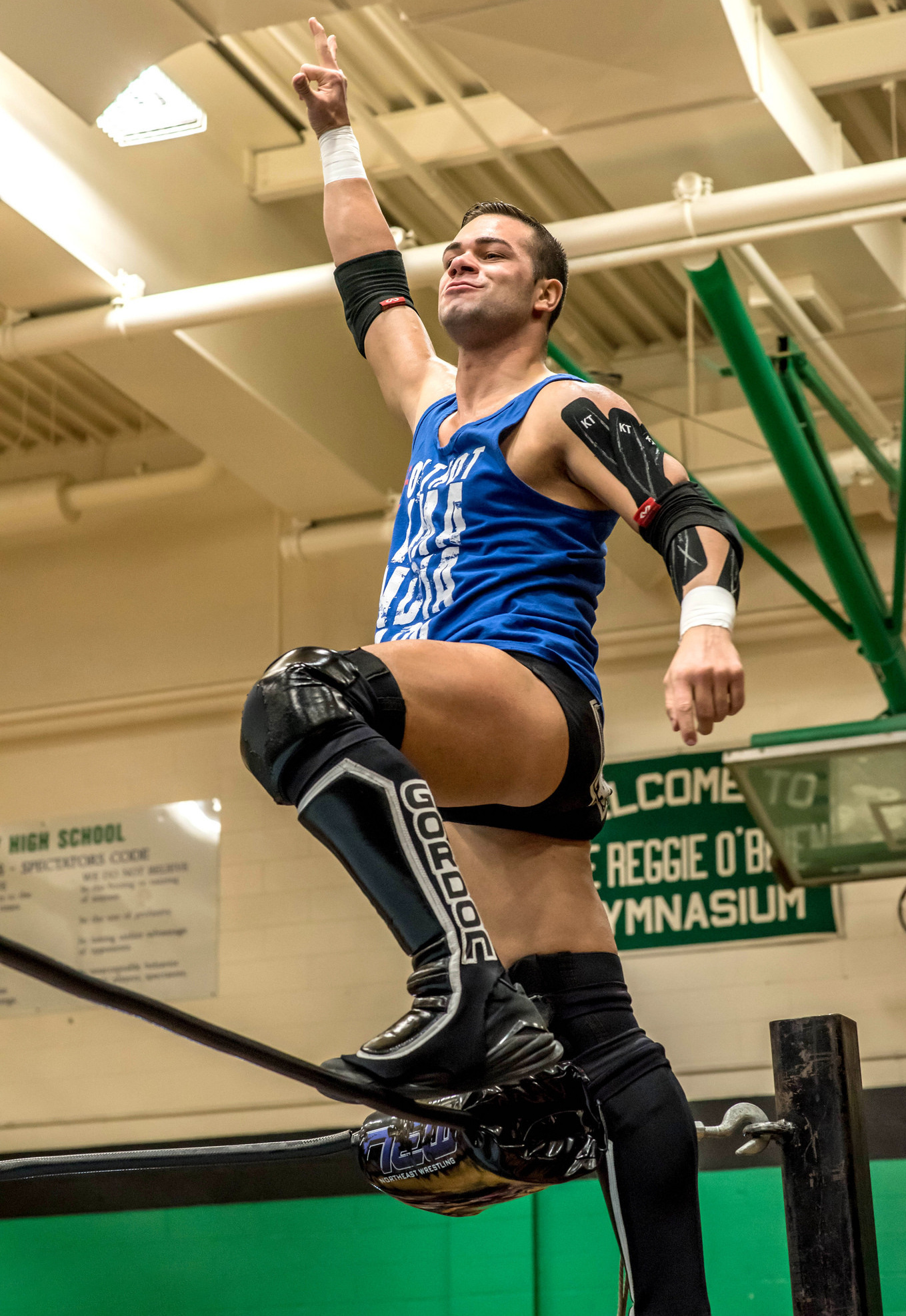 Travis "Flip" Gordon, pro wrestler